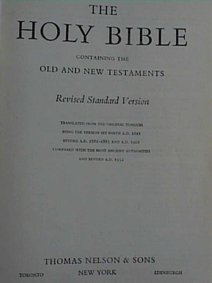 Although it is listed as a book cover, it is actually a title page to the original edition of the Revised Standard Version of the Bible, taken from the following address